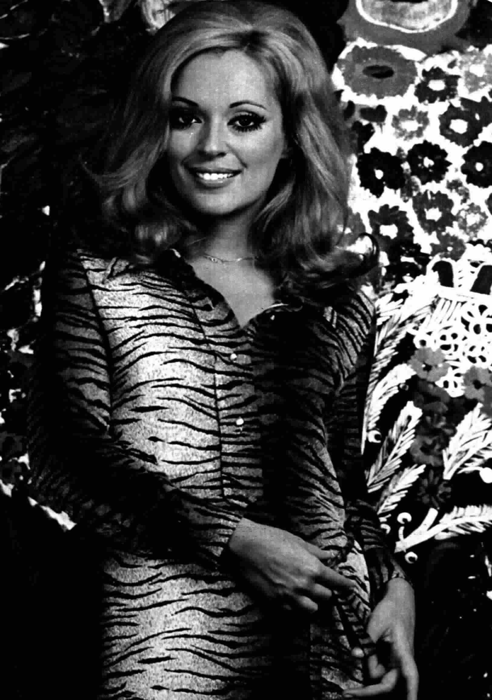 Italian journalist and presenter Silvana Giacobini